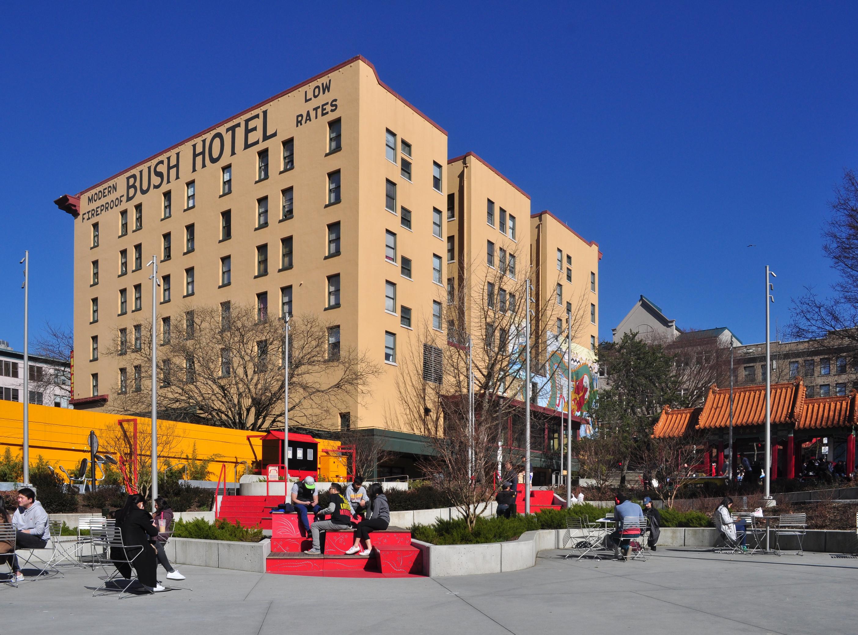 Image taken of Hing Hay Park and the Bush Hotel in the Seattle Chinatown/International District, March 2018. The prominent foreground features are in the new Hing Hay Park Expansion (completed in 2017); the background shows the pavilion (1975) and Bush Hotel (1915, now the Bush-Asia Center) and a portion of the dragon mural painted by John Woo on the Bush-Asia Center. Compared to the original, this image has been processed in Hugin to restore vertical lines from a tilted perspective and remove keystoning/convergence of the large building.